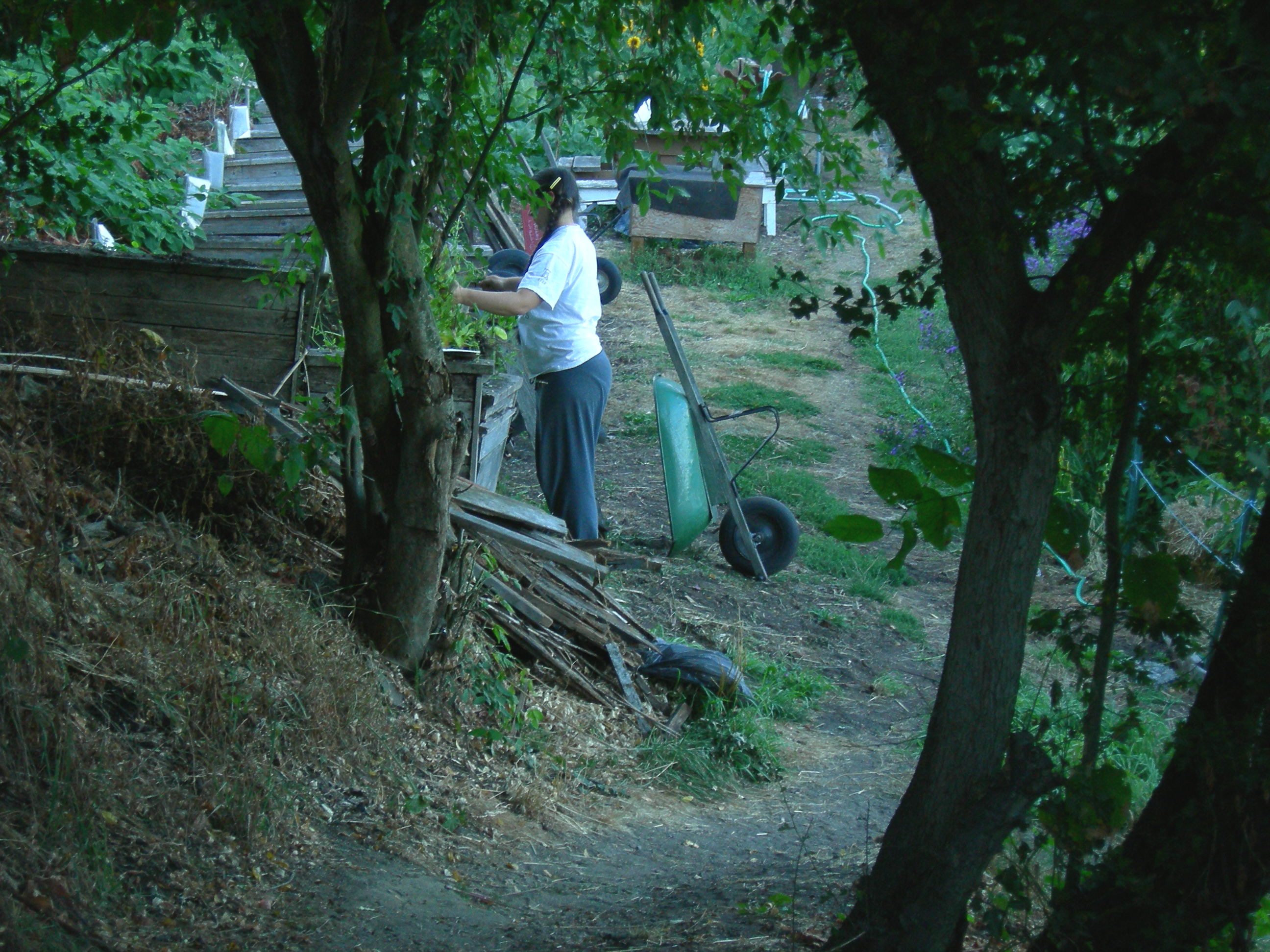 Picardo Farm, Wedgwood, Seattle, Washington. Seattle's first P-Patch community garden.